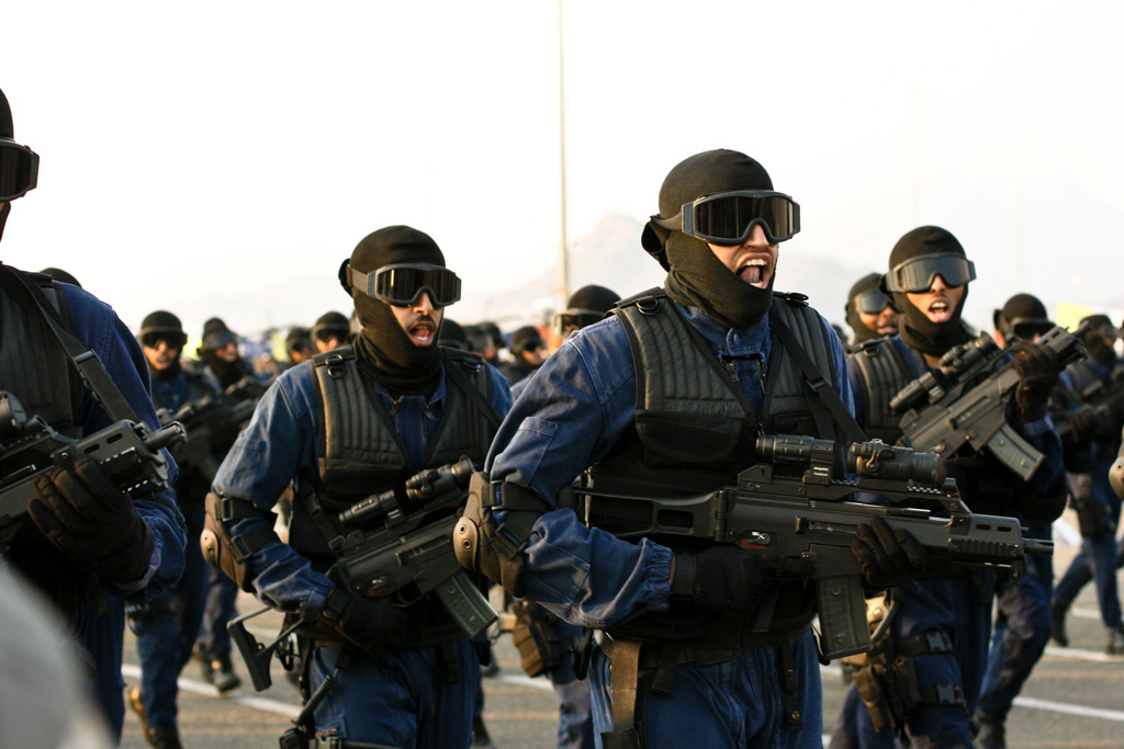 Photo by Omar Chatriwala